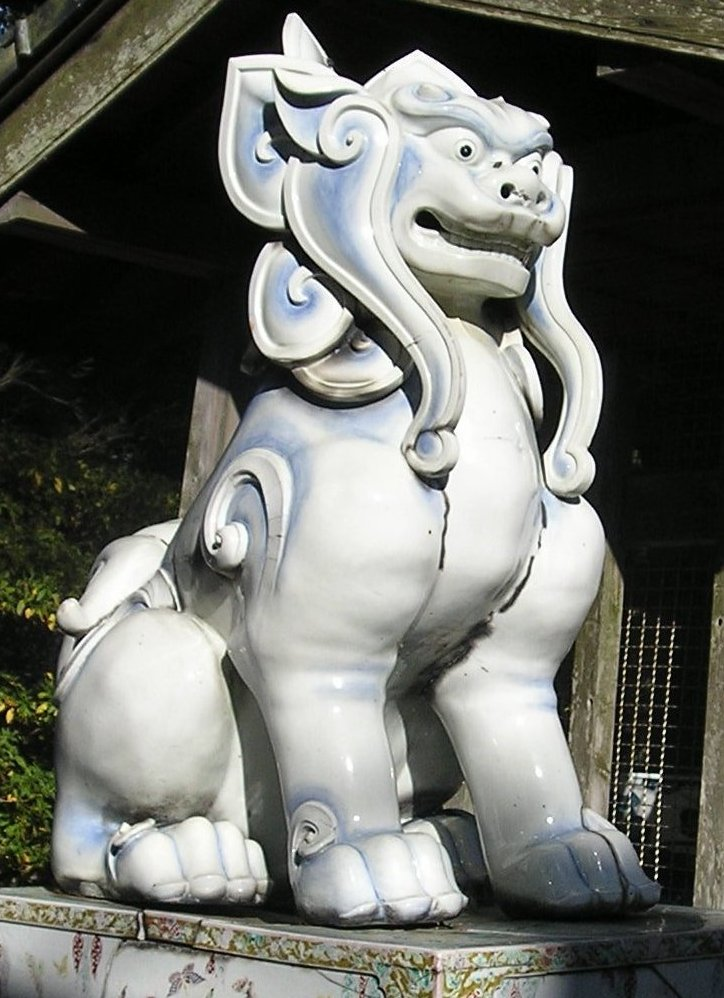 Komainu or lion-dogs at Tozan Shrine, Arita Town, Saga, Japan